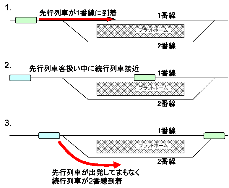 Explanation figure about alternate usage of two tracks in a railway station